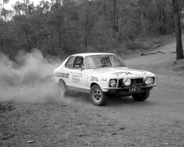 Peter Lang and Warwick Smith in the HDT Torana at the Warana Rally 1974